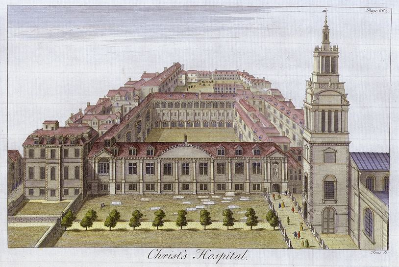 Christ's Hospital in London, engraved by Toms, c.1750. Location: 51.517411, -0.100014 From John Stow's Survey of London (1755)